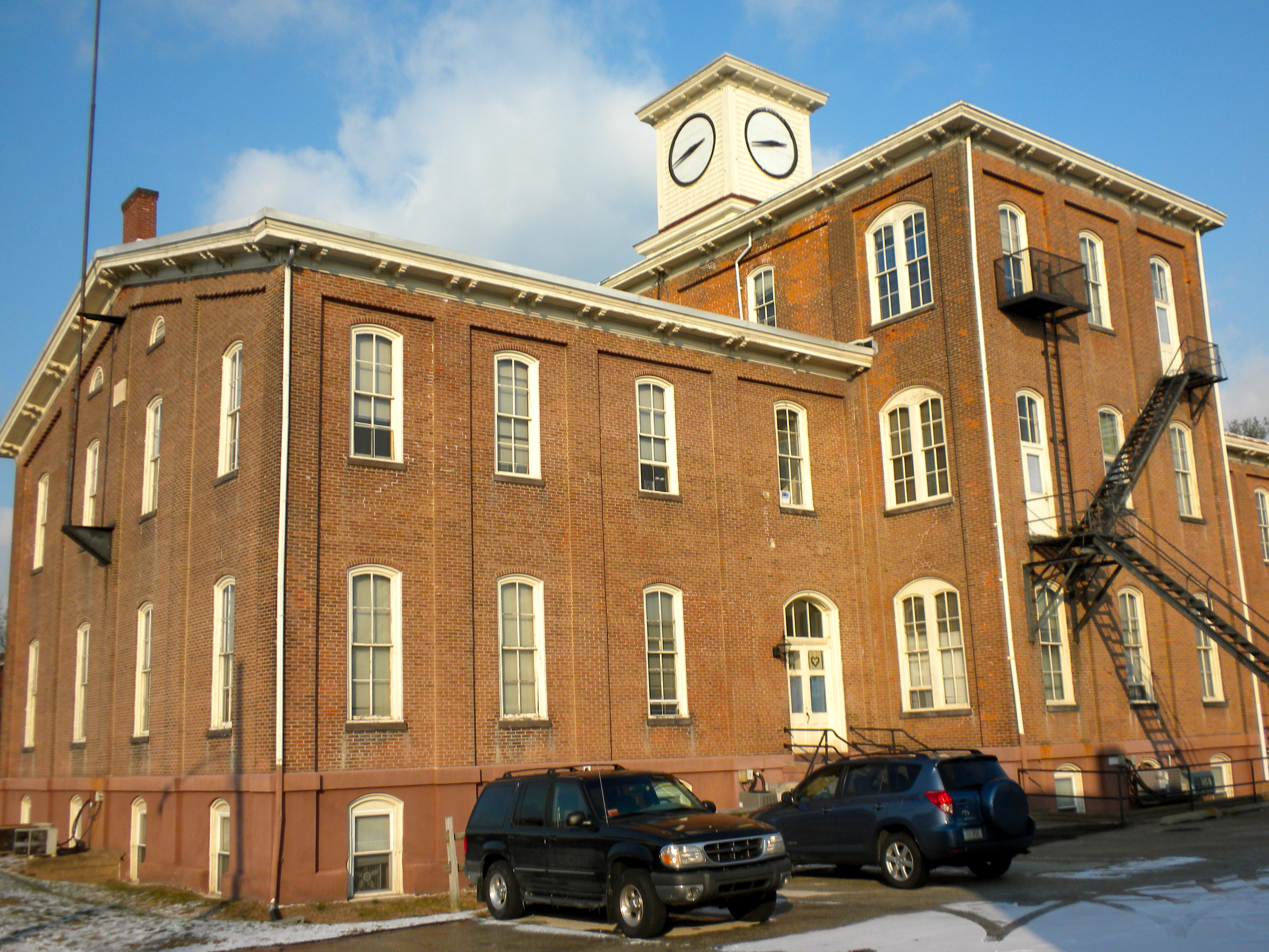 Gay Street School, corner of Gay and Morgan Streets, Phoenixville, PA. On NRHP. I donate this photo to the public domain.